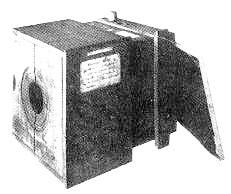 Earliest Niépce camera, 1826